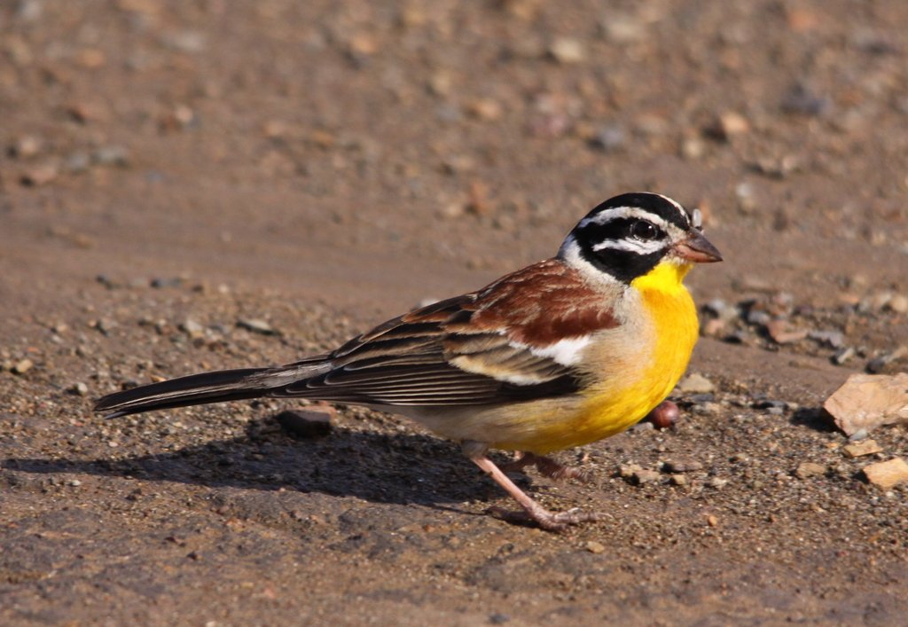 A Golden-breasted Bunting at Hluhluwe-Umfolozi Game Reserve, South Africa.